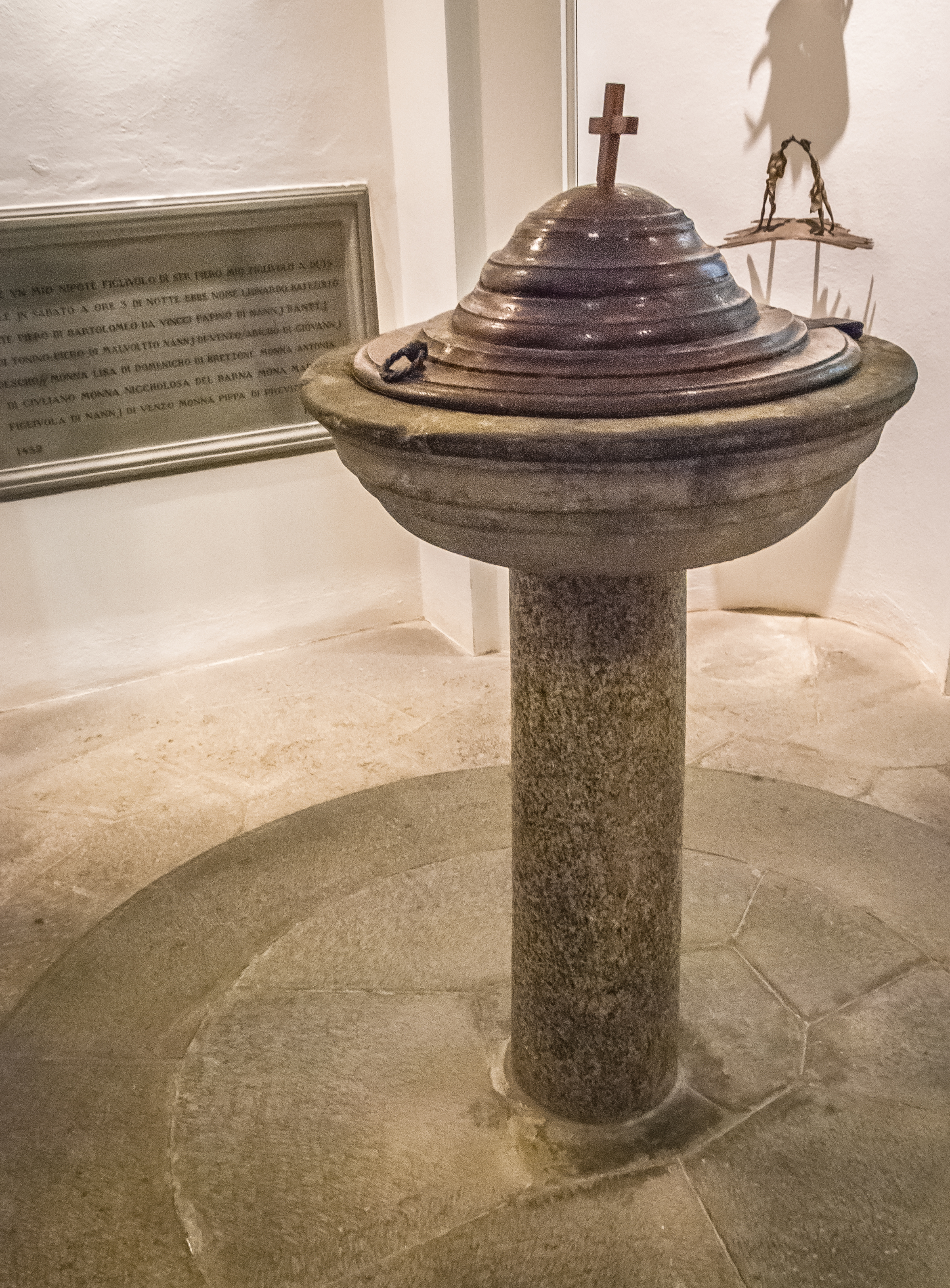 Leonardo da Vinci baptismal font, Chiesa di Santa Croce, Vinci, Italy